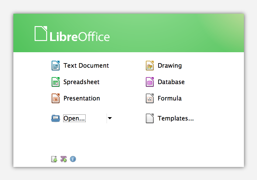 LibreOffice3.6.0.2plusStartCenter